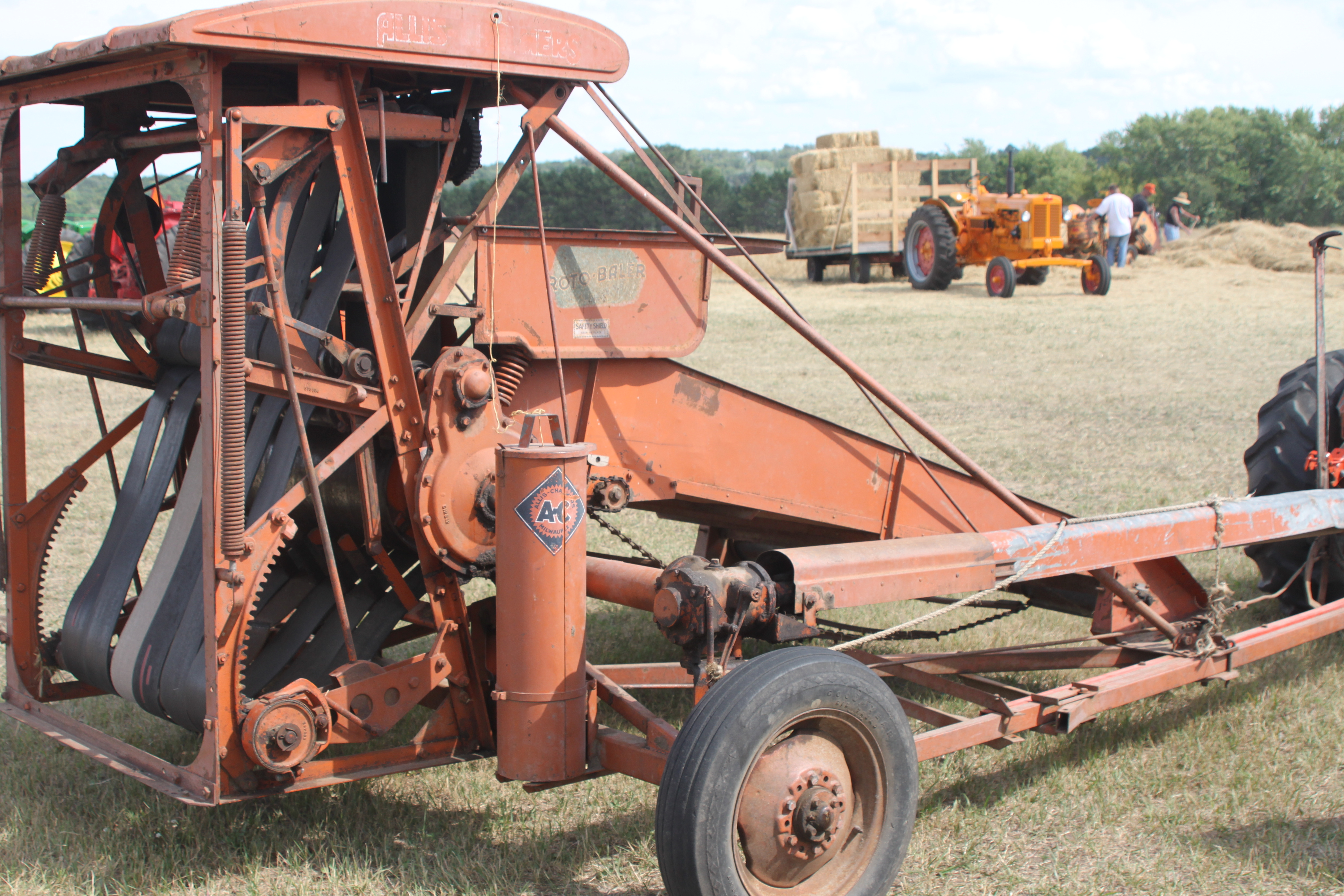 Allis Chalmers Rotobaler rear/side